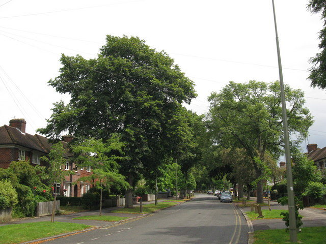 Morrell Avenue The avenue contains many mature trees that are mainly lime. New trees have also been planted of different varieties.